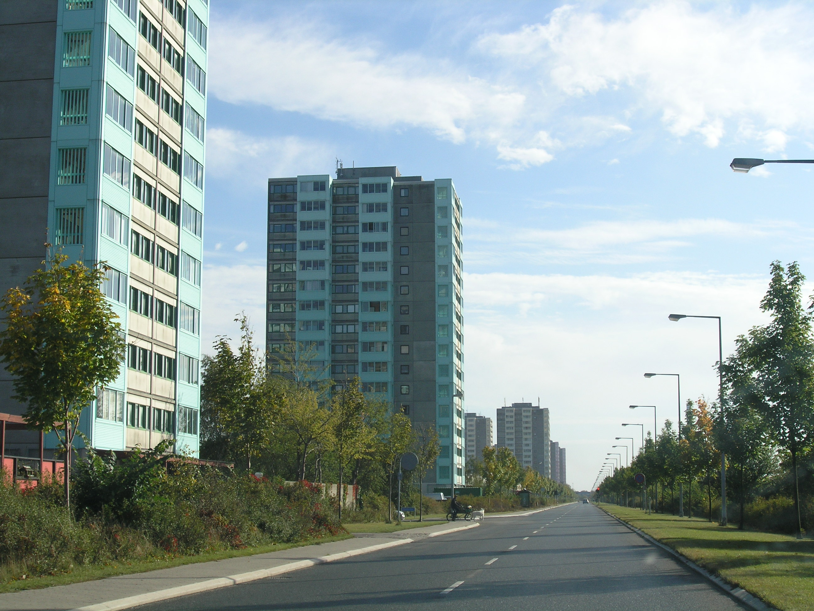 brøndby strand ca. 1971, architect and developer: thorvald dreyer.